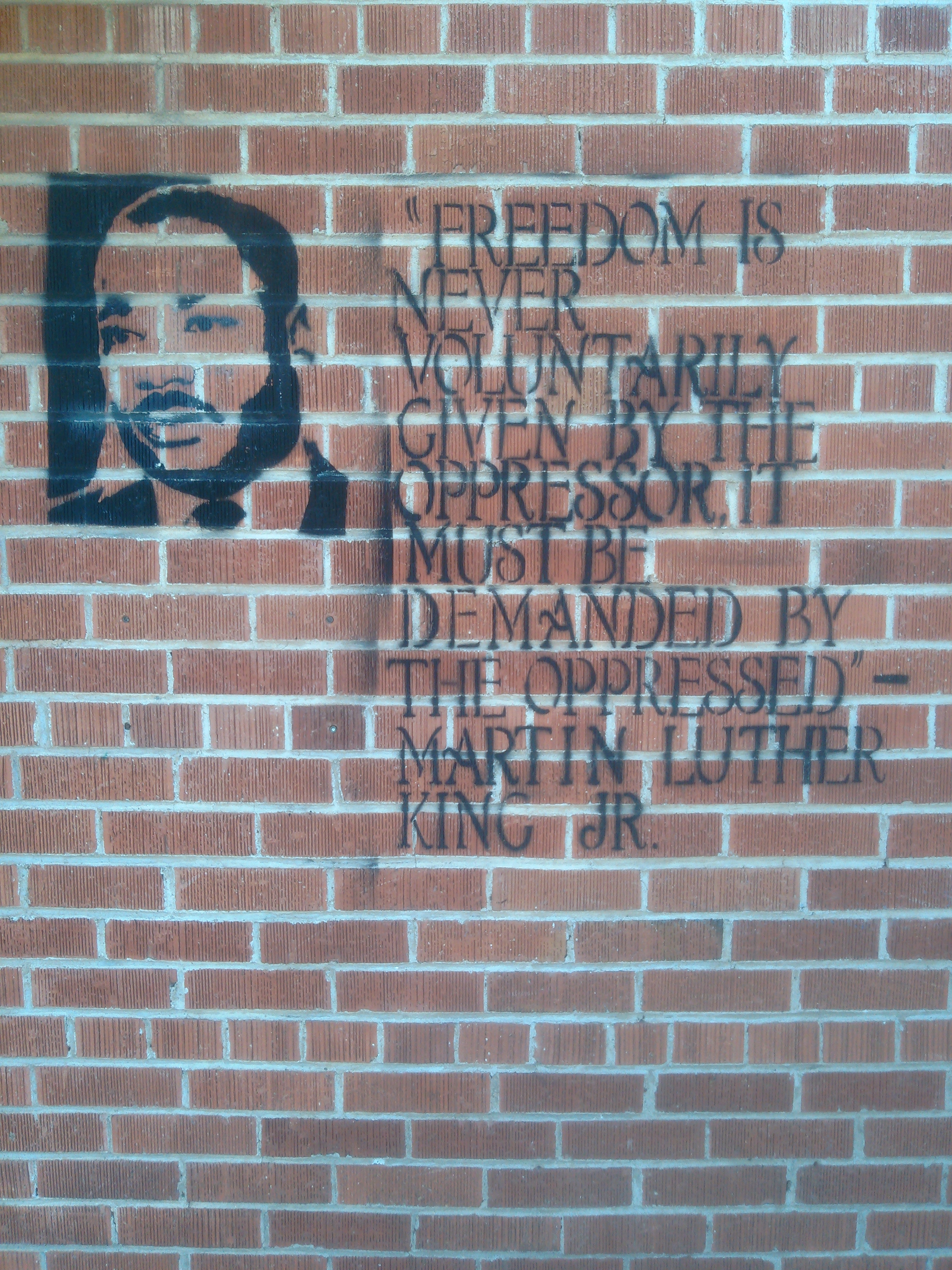 "Freedom is never voluntarily given by the oppressor, it must be demanded by the oppressed." - In Martin Luther King, Jr's Letter from a Birmingham Jail